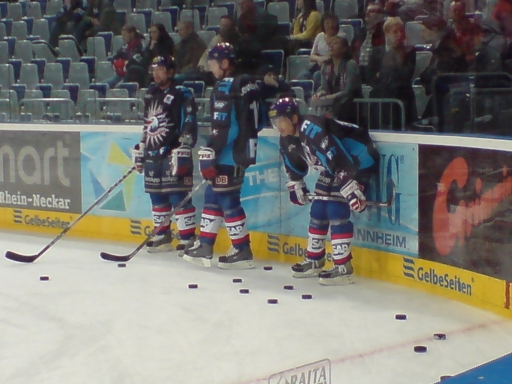 Rick Girard (right]